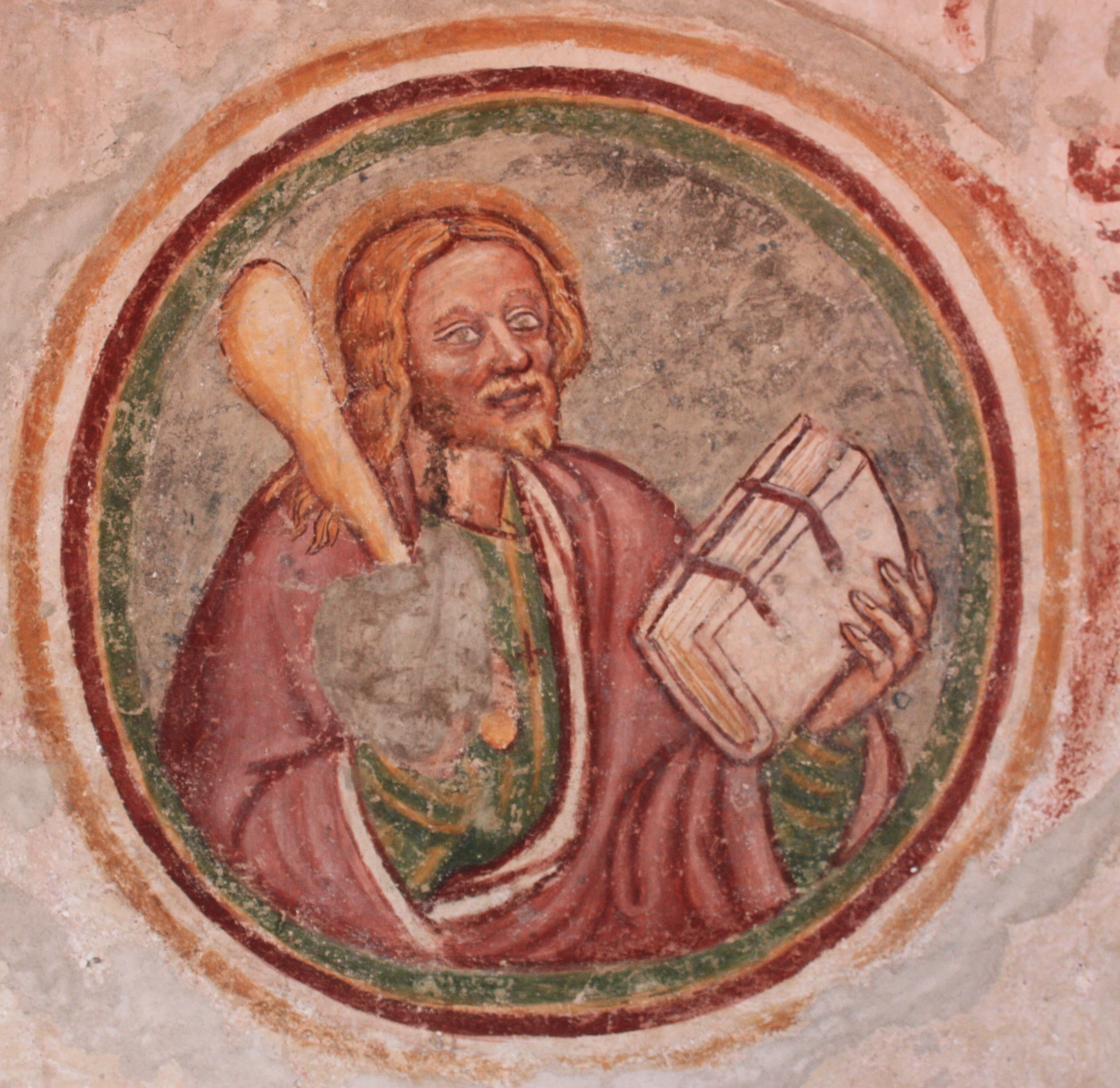 Parish church Saint Florian -Apostle Judas Thaddäus Locality: Rinkenberg/Vogrce Community:Bleiburg